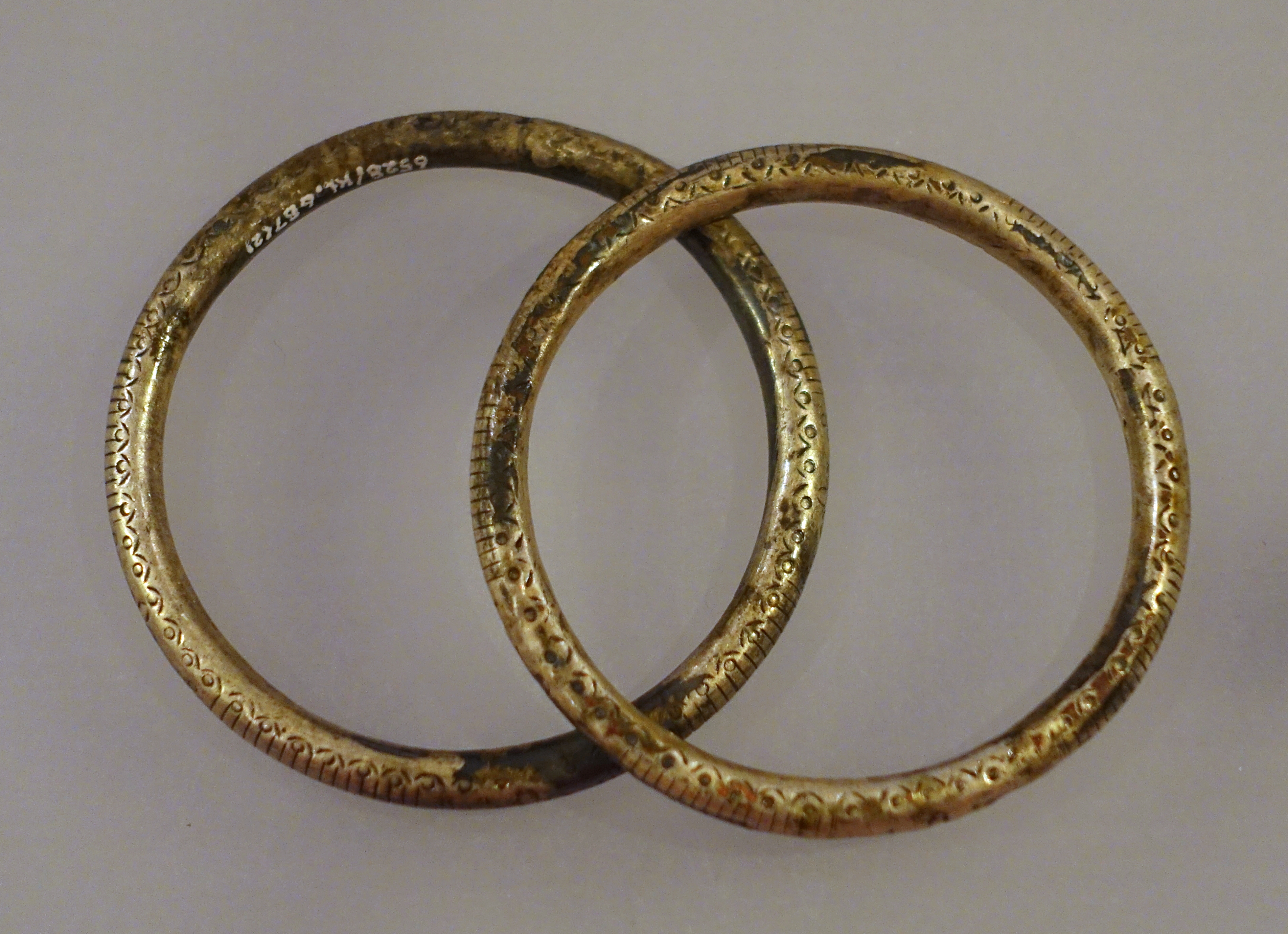 Exhibit in the Vietnamese Women's Museum, Hanoi, Vietnam.